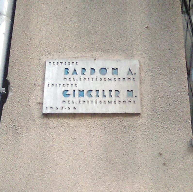 Budapest District II, Bajvívó street 01, corner to Jurányi street, Memorial plaque to Architects Alfred Bardon & Herman Ginczler